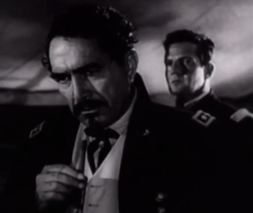 J. Carrol Naish & Steve Pendleton (behind) in Rio Grande - trailer (cropped screenshot)